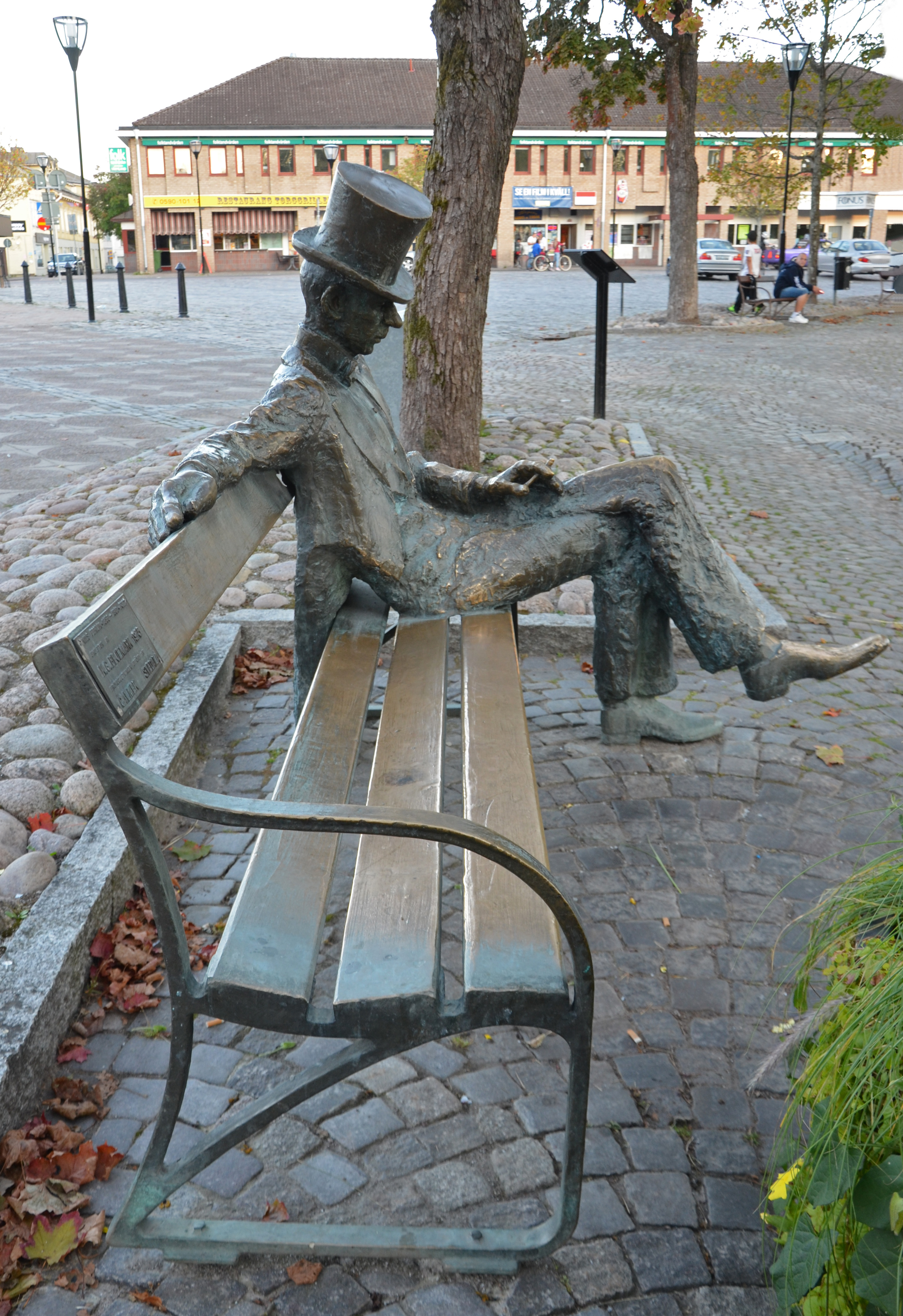 K G Bejemarks staty över Nils Ferlin på Stora Torget i Filipstad